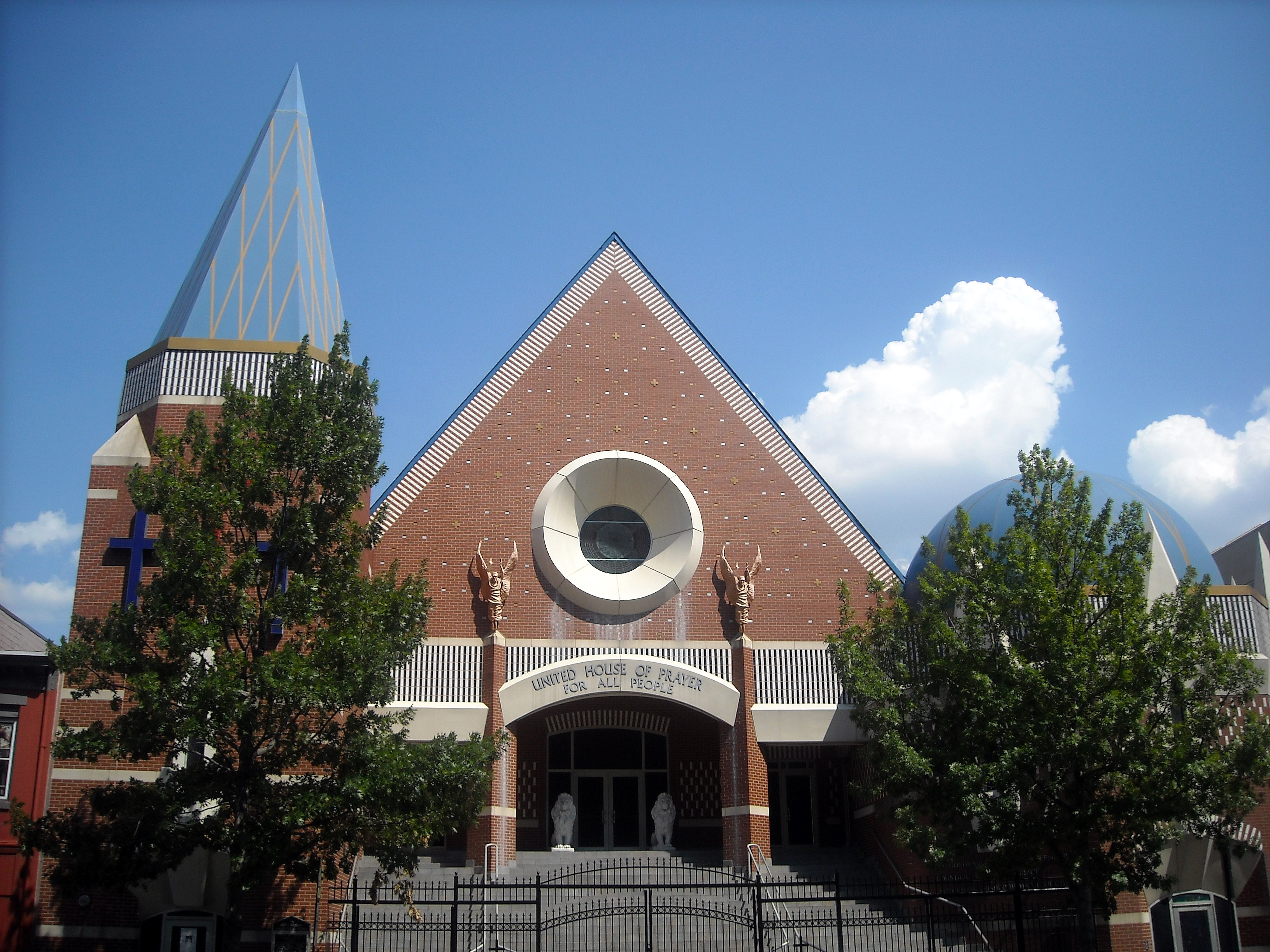 The United House of Prayer for All People at 1721 7th Street, NW in the Shaw neighborhood of Washington, D.C.